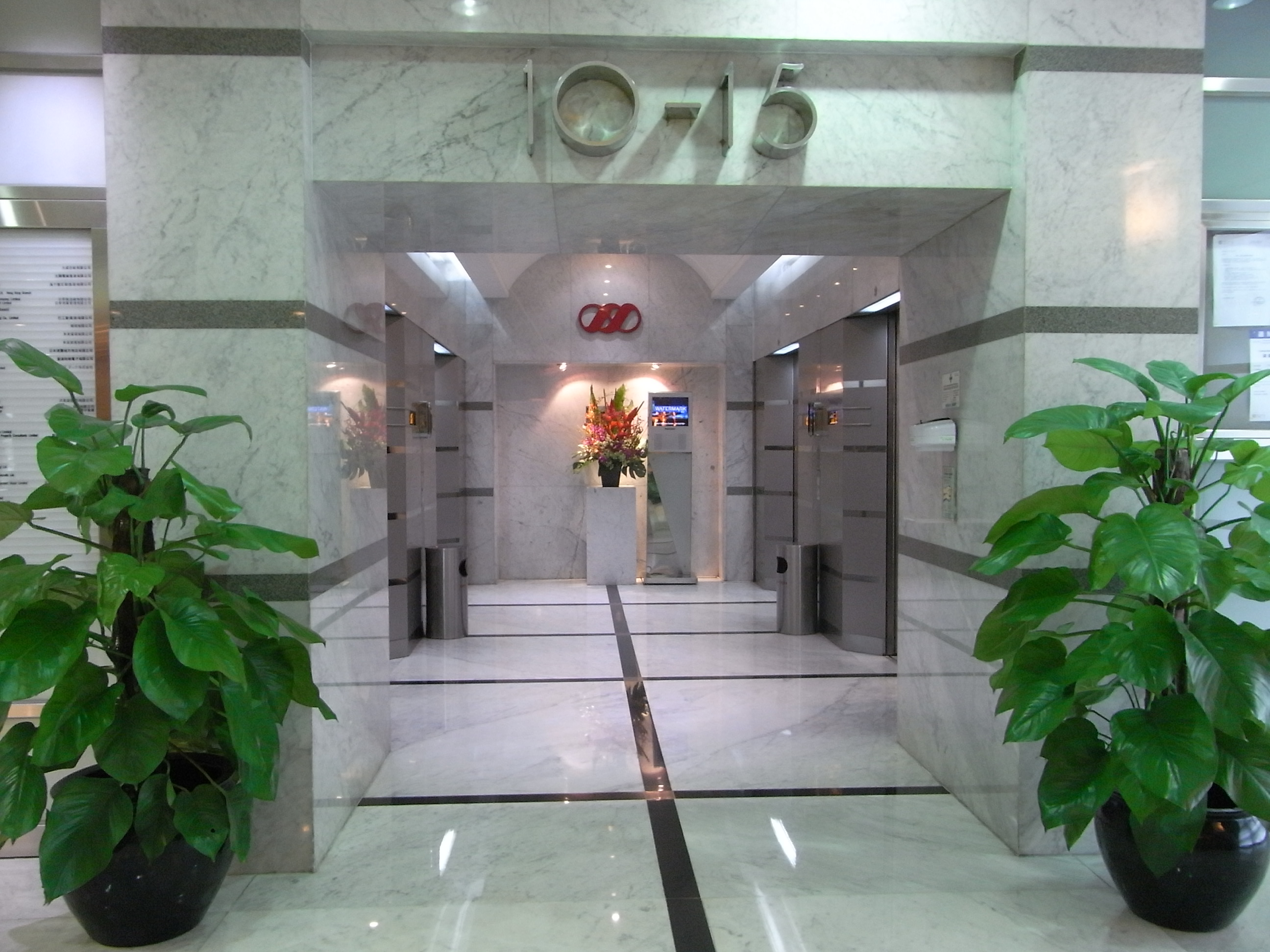 尖沙咀 力寶太陽廣場